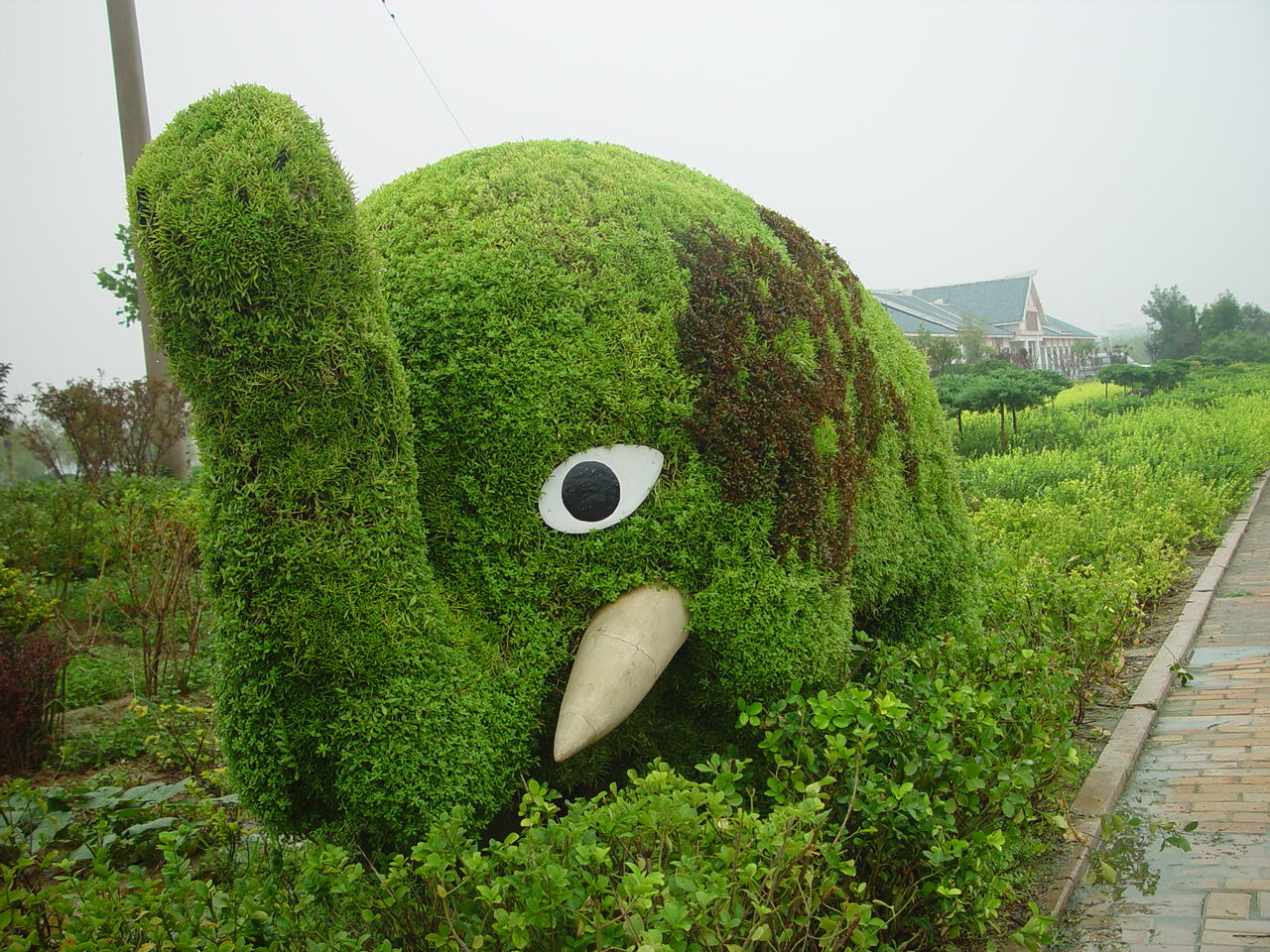 A floral insculp in park